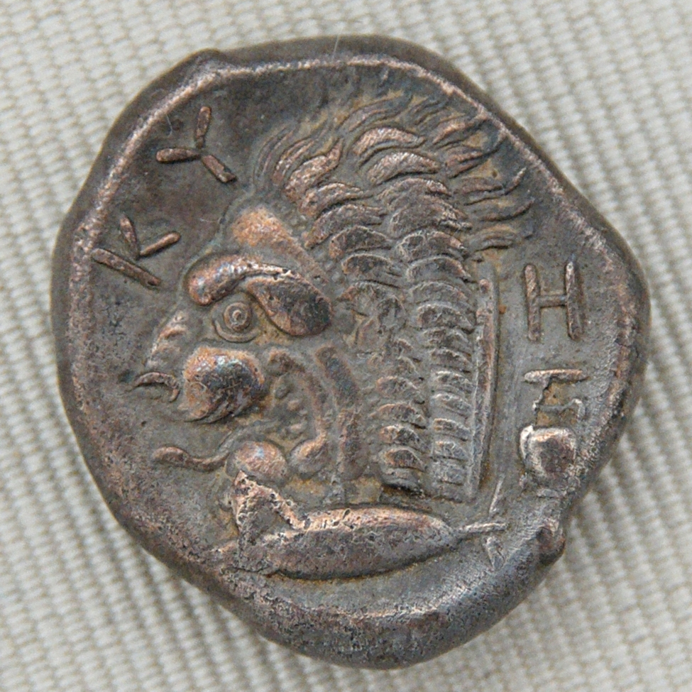 Silver tetradrachm issued by the city of Cyzicus, ca. 350 BC, reverse: lion head left, a tuna fish below.